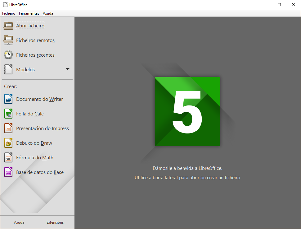 Start center of LibreOffice 5.1 in Galician.